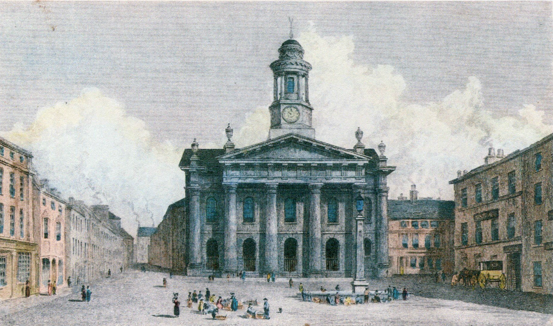 Coloured engraving of Lancaster Town Hall (now a museum) in 1828